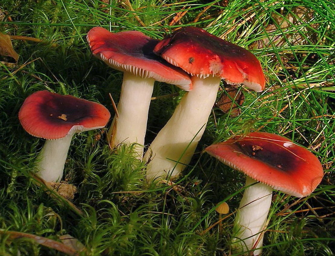 Russula atrorubens Location: Hörnefors, Västerbotten, Sweden For more information about this, see the observation page at Mushroom Observer.